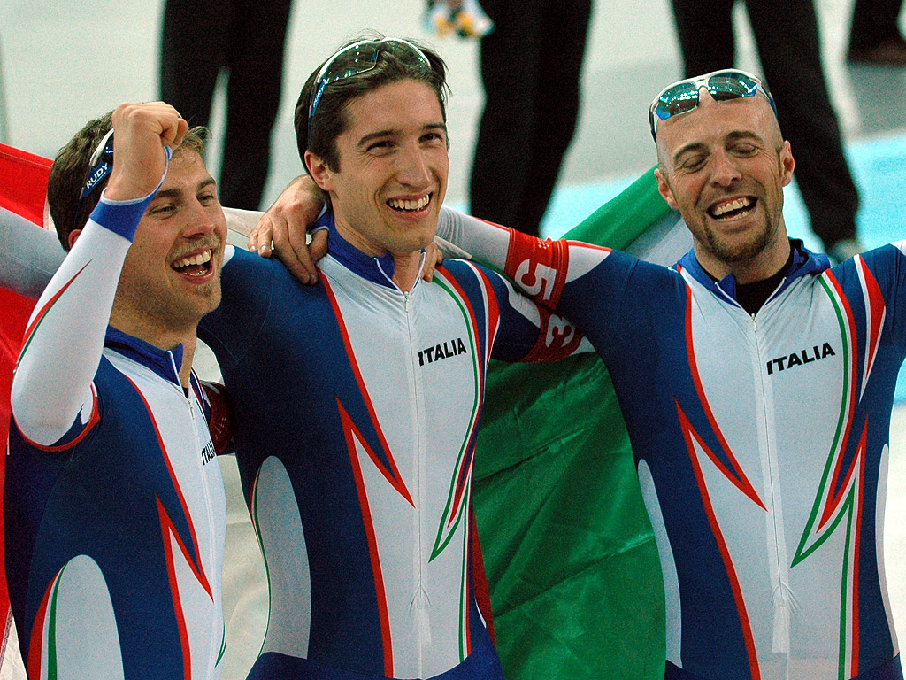 Matteo Anesi, Enrico Fabris and Ippolito Sanfratello celebrating Italy's gold in the Team Pursuit at the 2006 Winter Olympics in Torino.